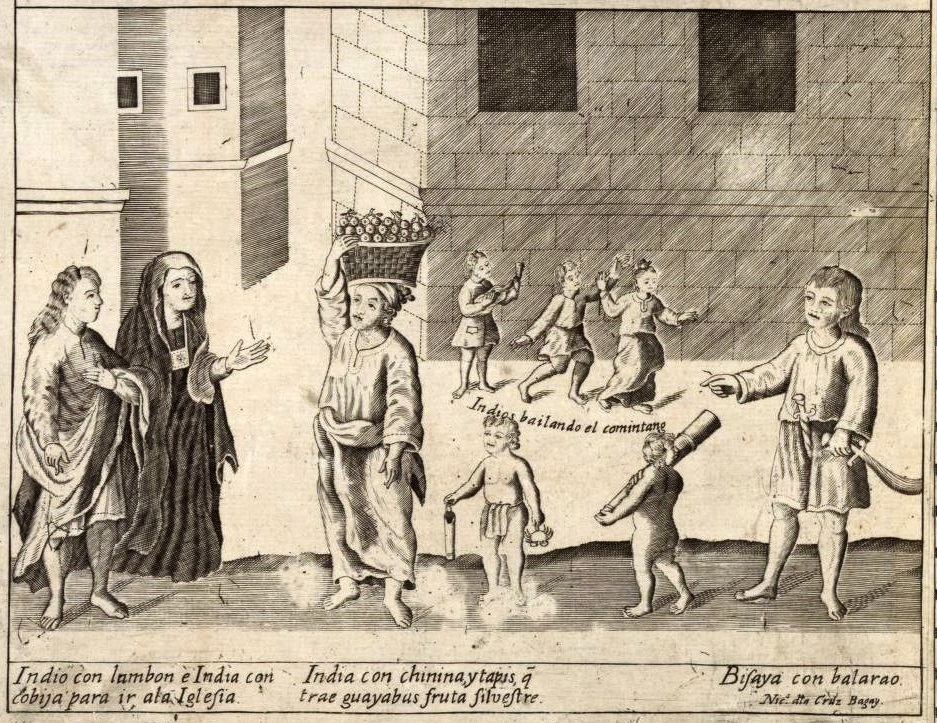 Native Filipinos, called "Indios" by the Spanish. Detail from Carta Hydrographica y Chorographica de las Yslas Filipinas (1734). From left to right, mainly translated from the Spanish captions as indicated: a native couple dressed for Church, a native woman dressed in a "chinina" (Chinese-style blouse or shirt) and a "tapis" (skirt); she is carrying a basket of wild guava fruit, two children, one dressed in a loincloth, the other naked. Both are carrying various items, incuding a crab, A Visayan man, armed with a "balarao" (knife or dagger) and a sword in the background are a couple performing a native dance